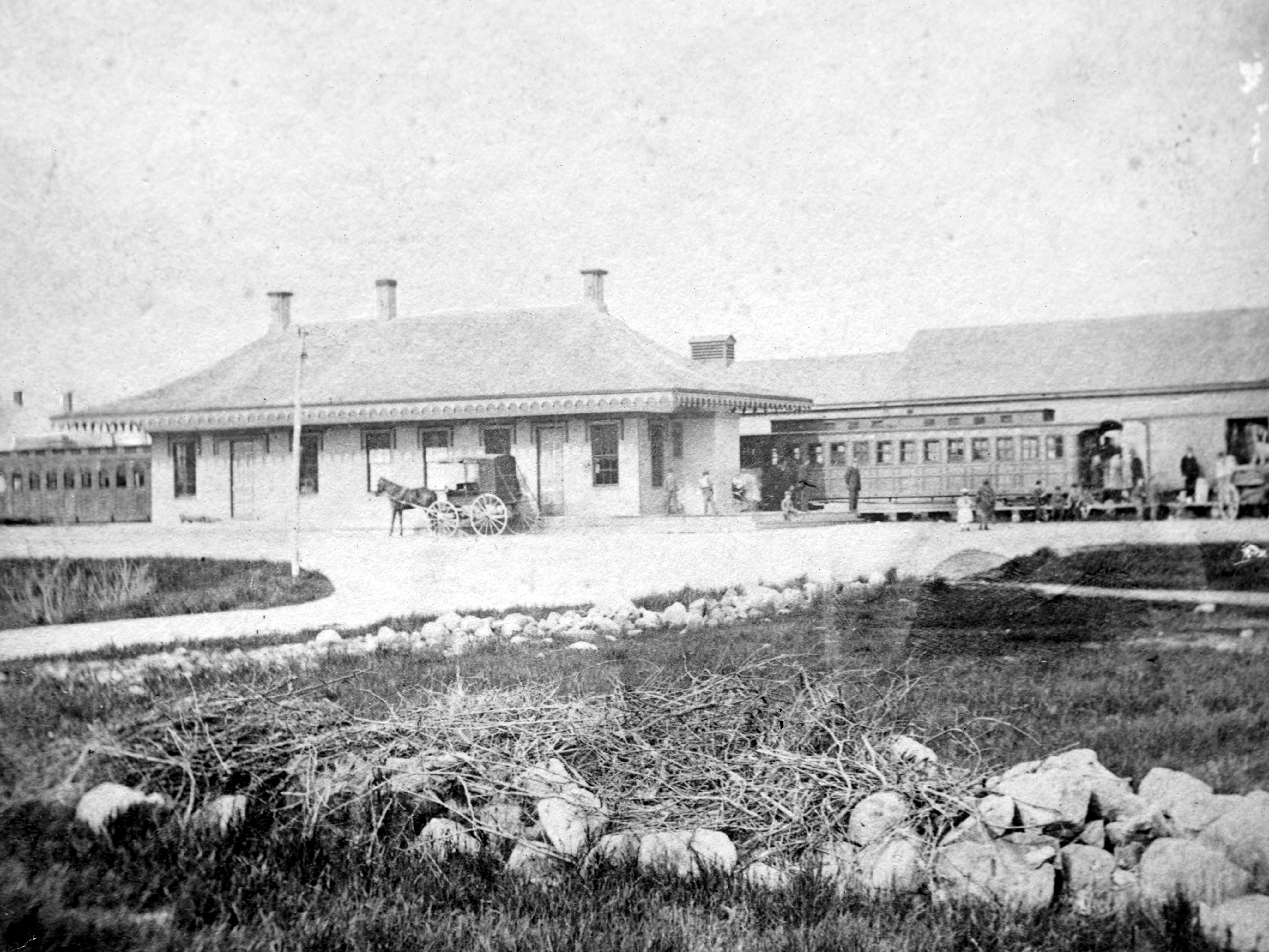 The first Brockton station around 1880